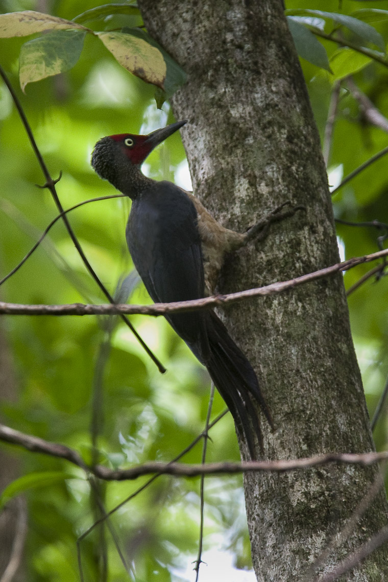 Ashy Woodpecker - Sulawesi_MG_4890